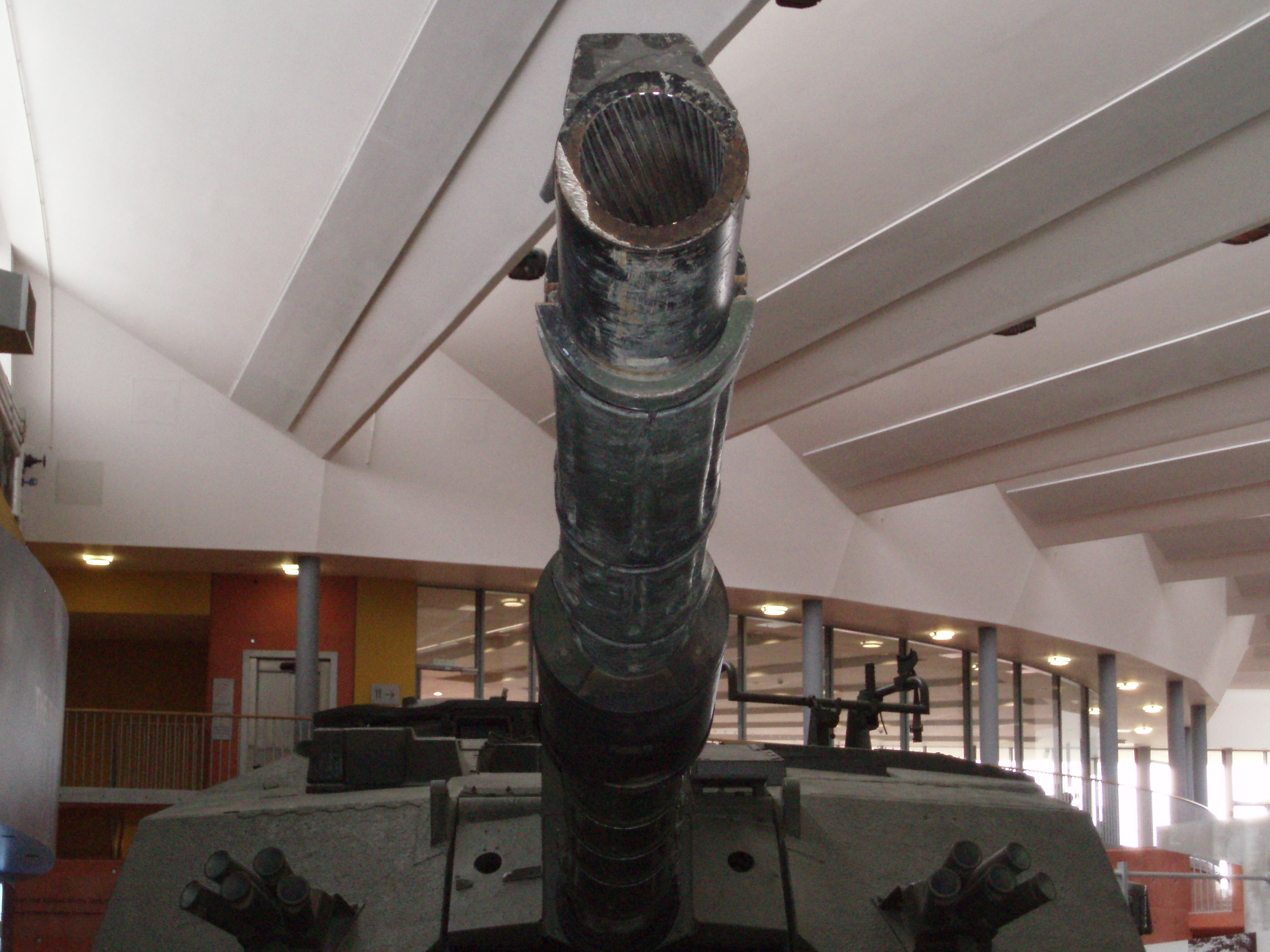 Gun rifling of Challenger 2 at Bovington Tank Museum